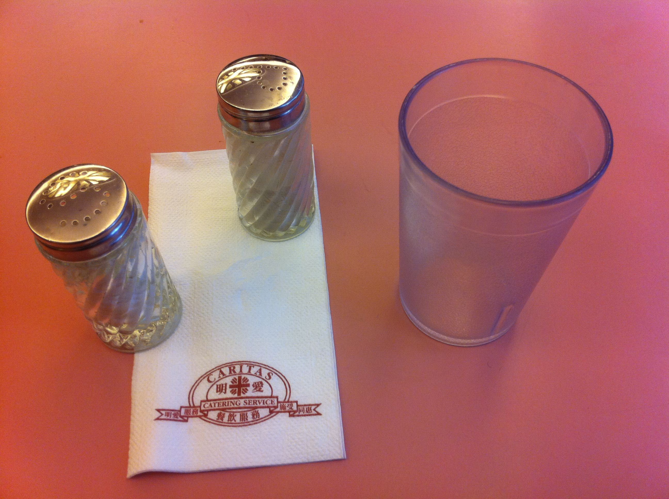 香港島 明愛中心 (堅道) 自設zh:快餐店 紙巾